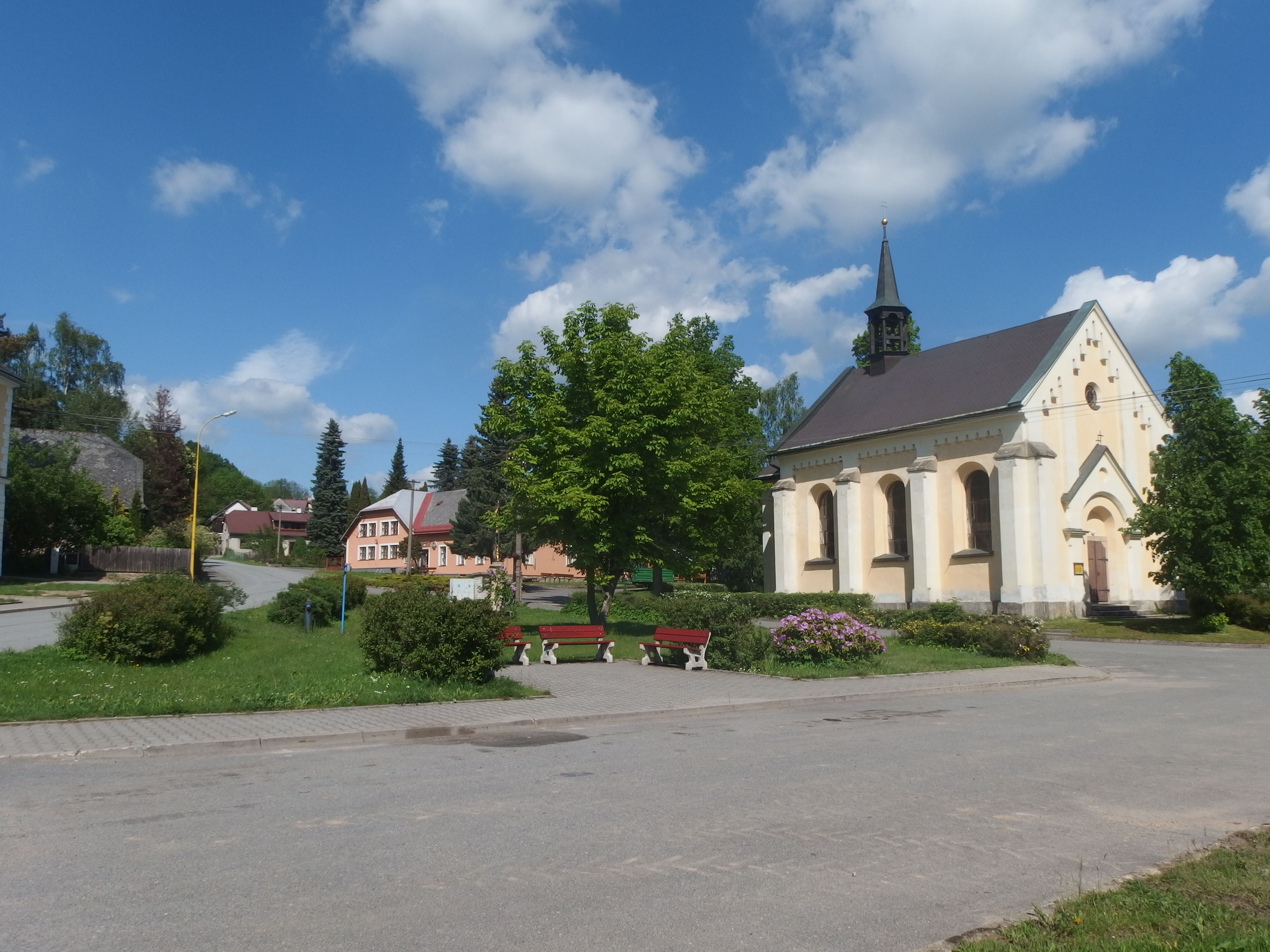 Nedvězí, Svitavy District, Czechia.